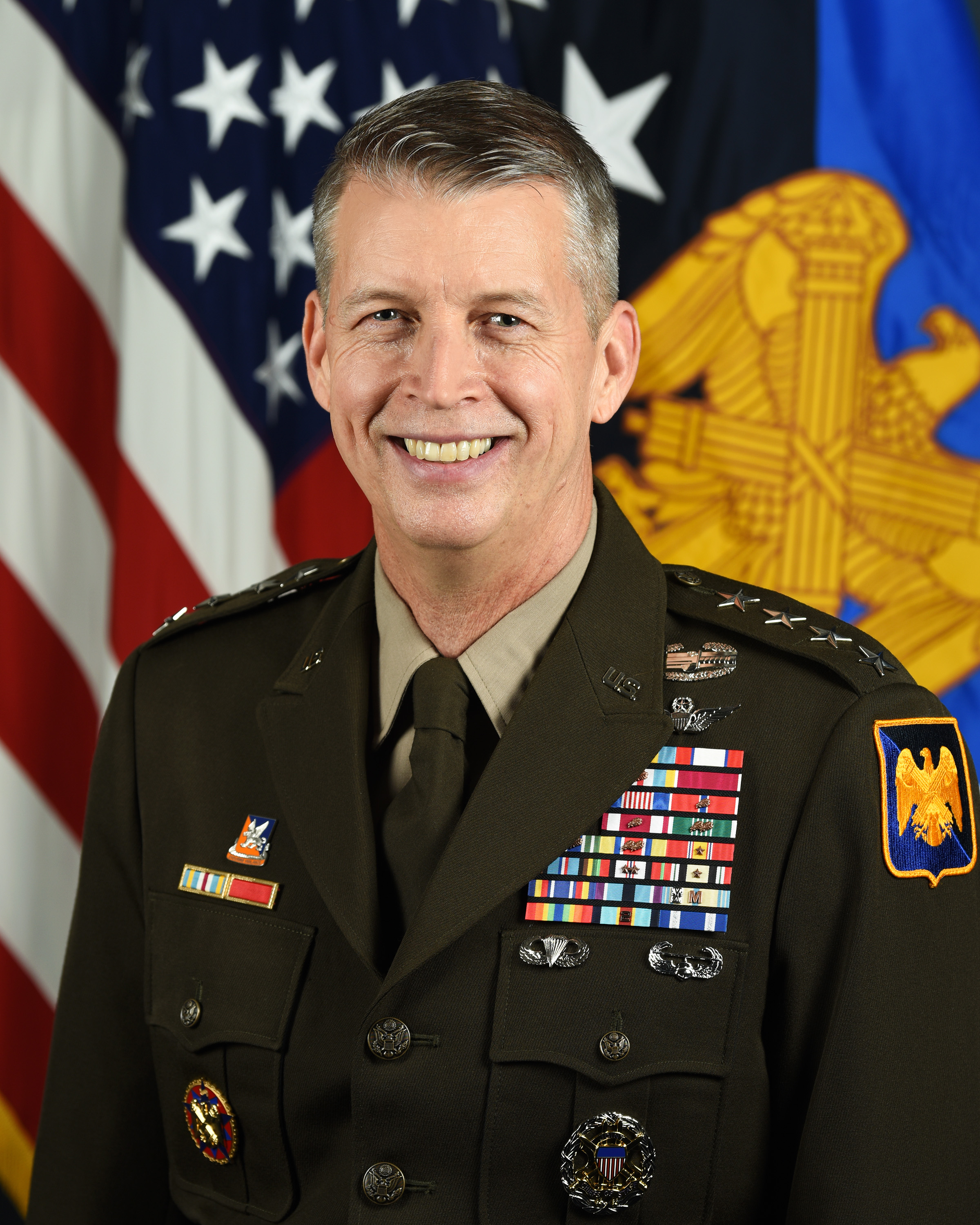 Chief of the National Guard Bureau U.S. Army Gen. Daniel R. Hokanson, poses for his official portrait in the Army portrait studio at the Pentagon in Arlington, Va, Aug. 03, 2020. (U.S. Army photo by William Pratt)